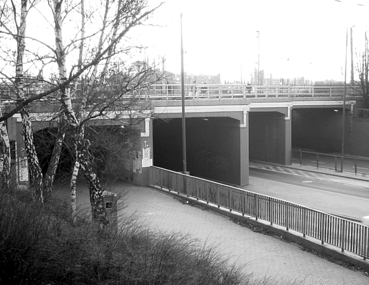 Own work, tunnels near the Warsaw West railway station photo, Warsaw, 2007.